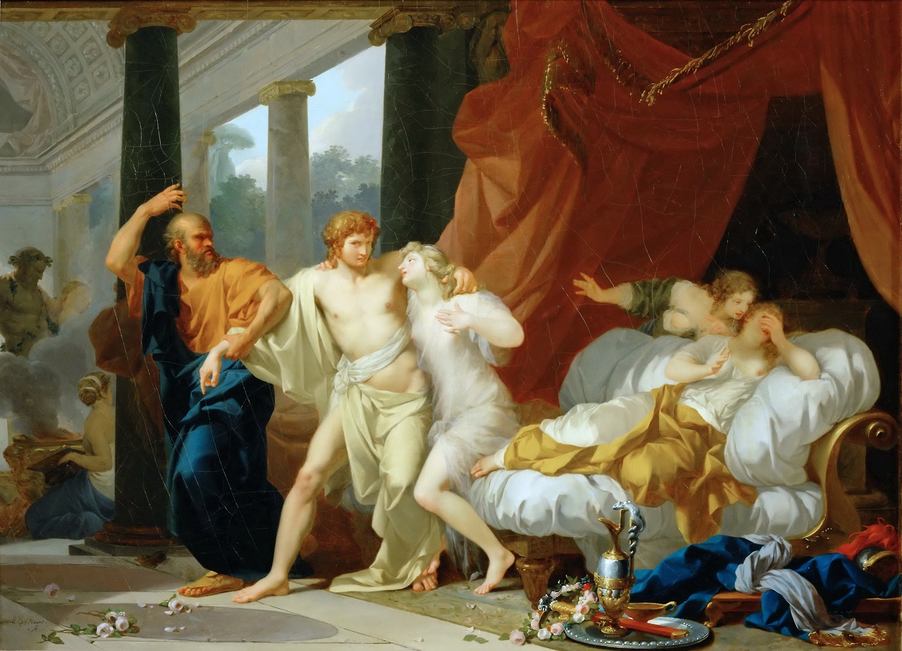 Socrate arrachant Alcibiade du sein de la Volupté (Socrates Tears Alcibiades from the Embrace of Sensual Pleasure). Oil on canvas, 1791.